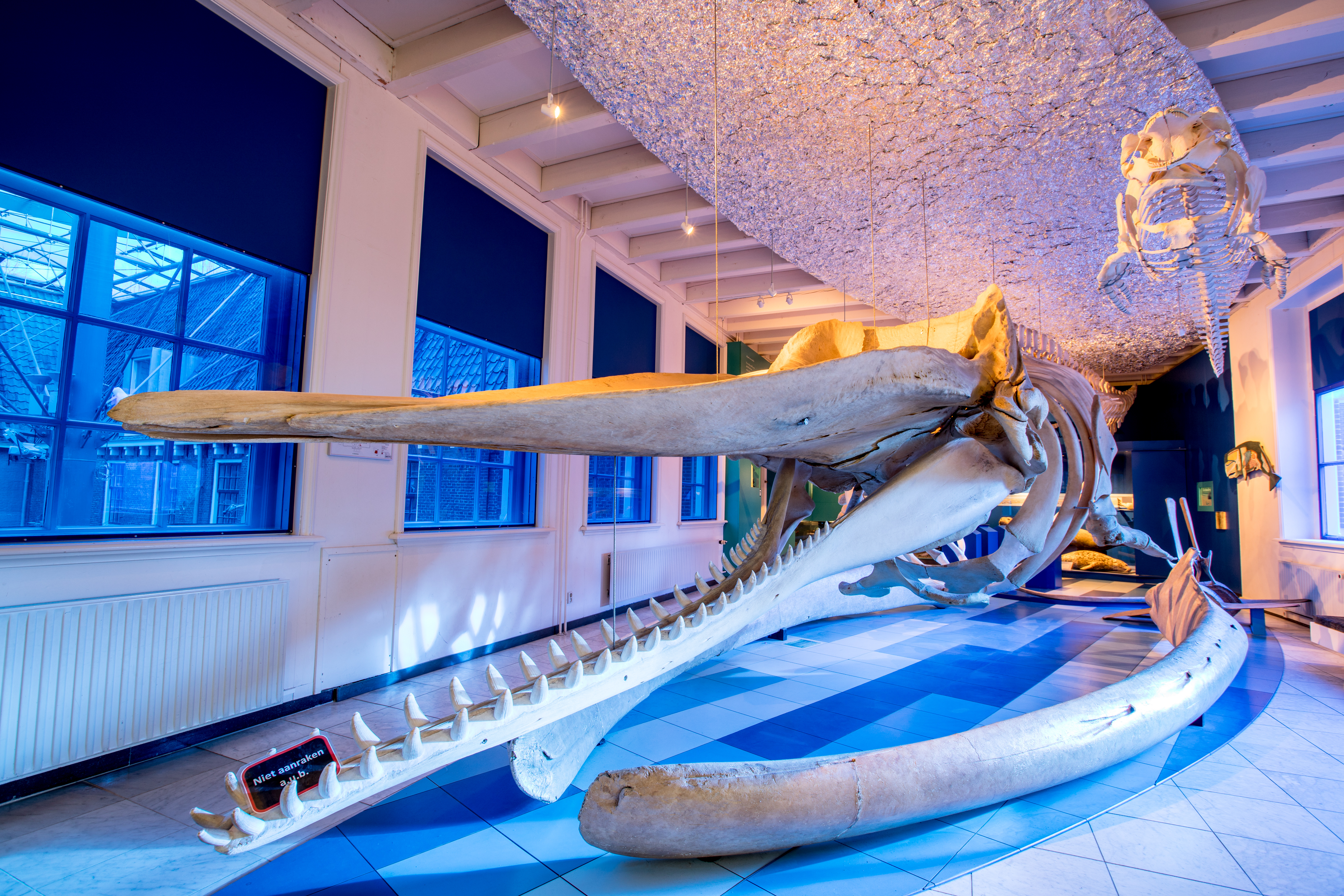 This exhibition is dedicated to different sea mammals. Here you find skeletons of the Common Minke whale, Harbour porpoise, Narwhal and Bottlenose dolphin. The greatest highlight is the skeleton of a Sperm whale that washed ashore on November 3rd, 1994 on the beach of the Dutch island of Ameland.